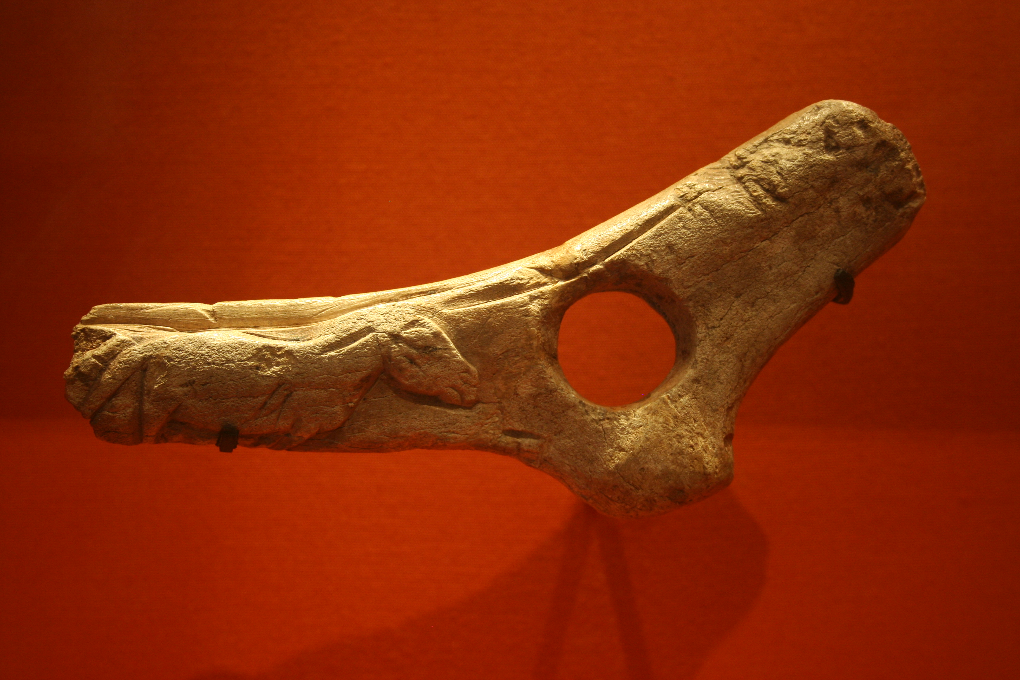 Perforated baton with low relief horse, Late Magdalenian, about 12,500 years old From the rockshelter of La Madeleine, Dordogne, France Made from reindeer antler. From the GLAM event at the British Museum's Ice Age exhibit.